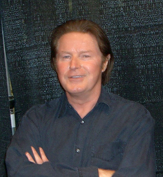 Don Henley of The Eagles (centre) on their Eagles Farewell Tour 1.